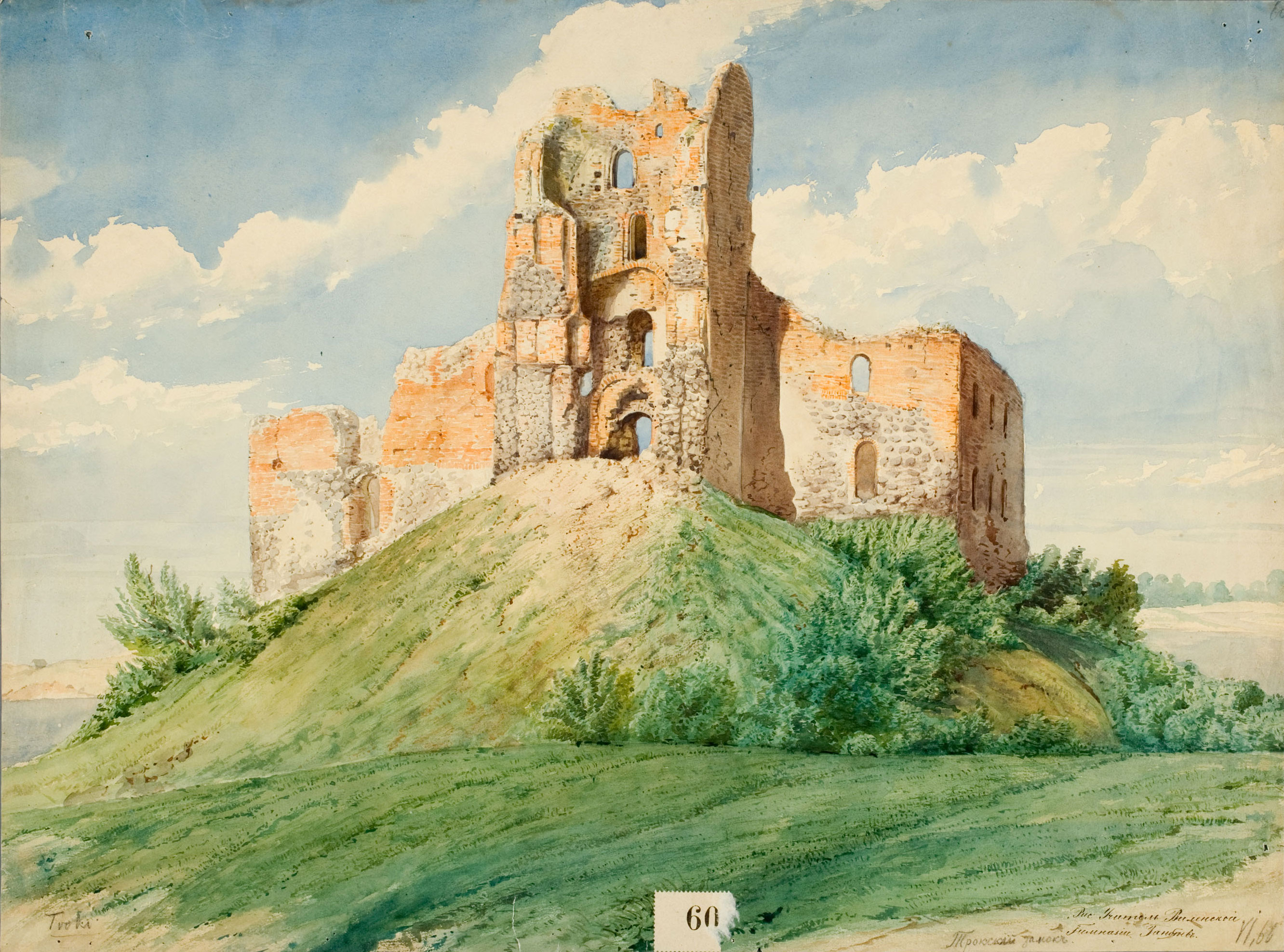 Trakai Island Castle